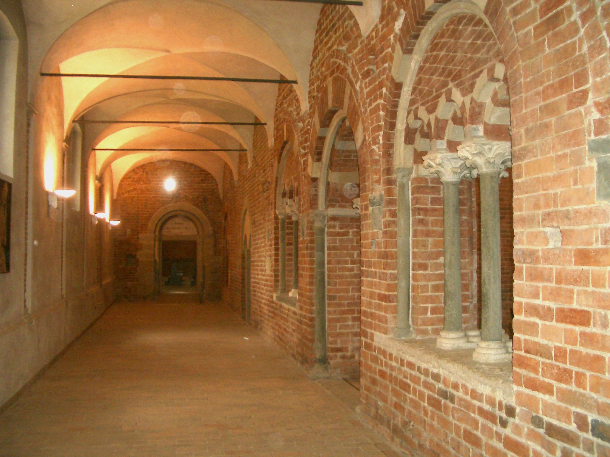 Rivalta Scrivia, Saint Mary’s Abbey”, remaining part of the cloister